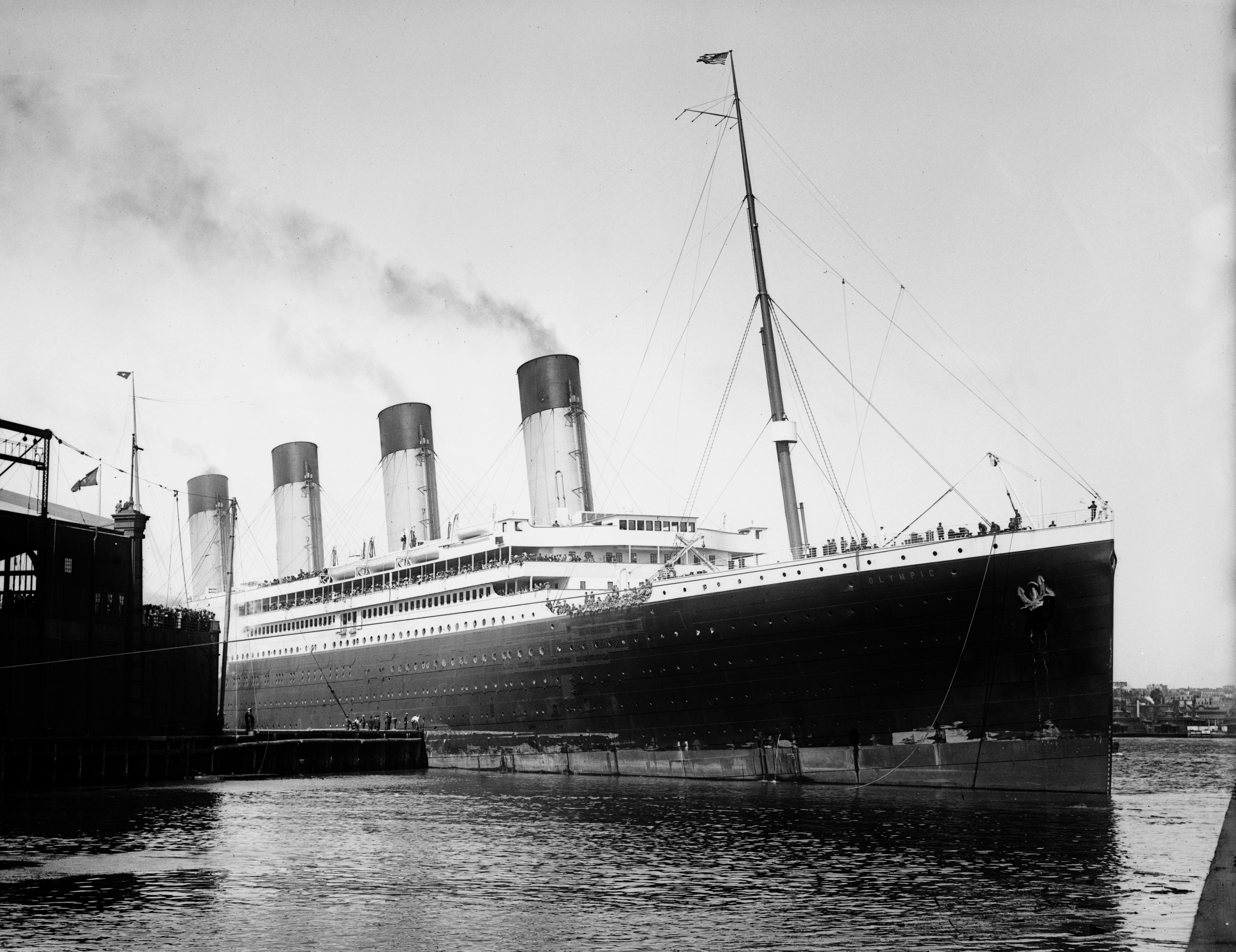 RMS Olympic